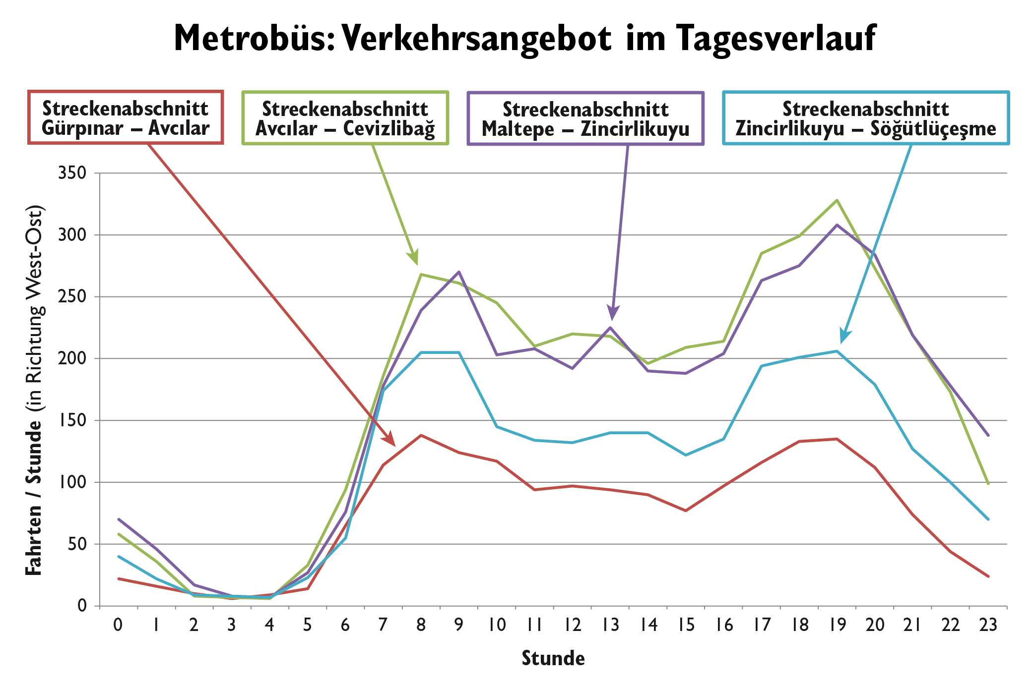 Route statistics of the Istanbul Metrobüs